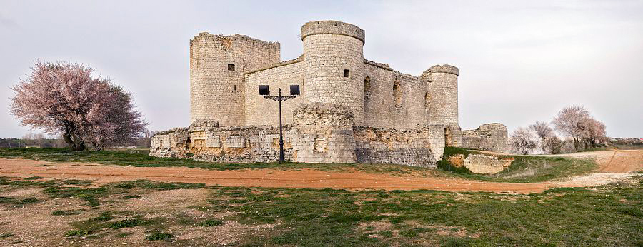 Castillo de Pioz. Guadalajara. Castilla la Mancha. España